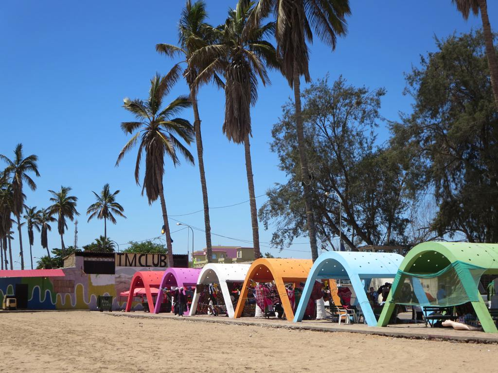 Handicraft vendors peddle their wares beneath parabolic shelters along Praia das Miragens in Namibe, Angola.